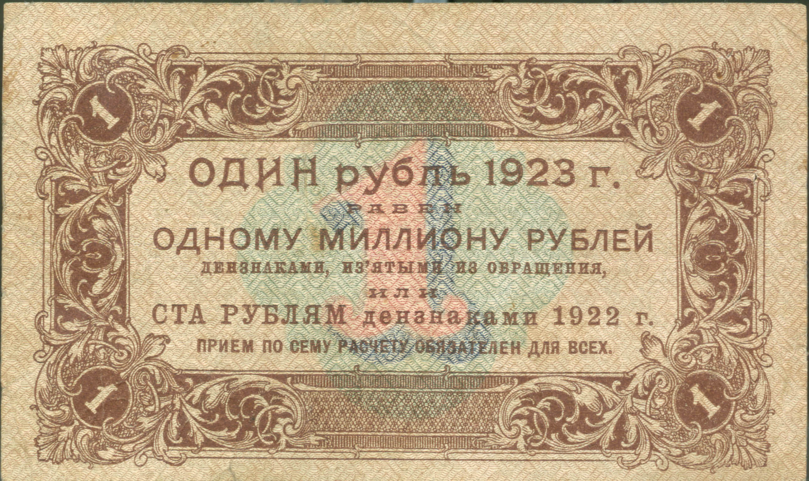 Soviet Union money bill, 1923. See also other side image:1rouble1923b.jpg